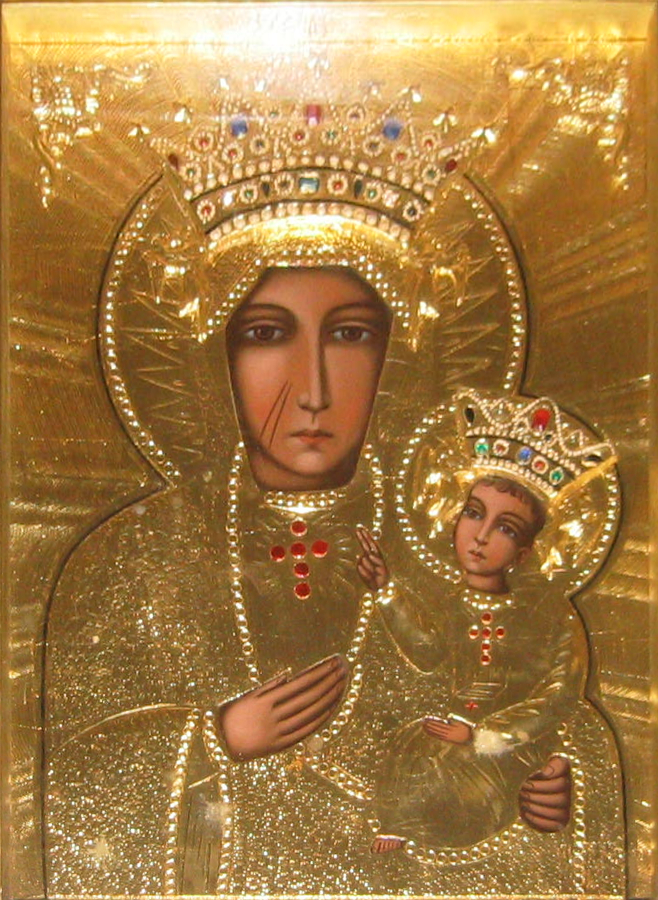 Church of the Black Madonna of Częstochowa (Głogówko, Lower Silesian Voivodeship)